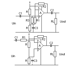 single supply OP gain